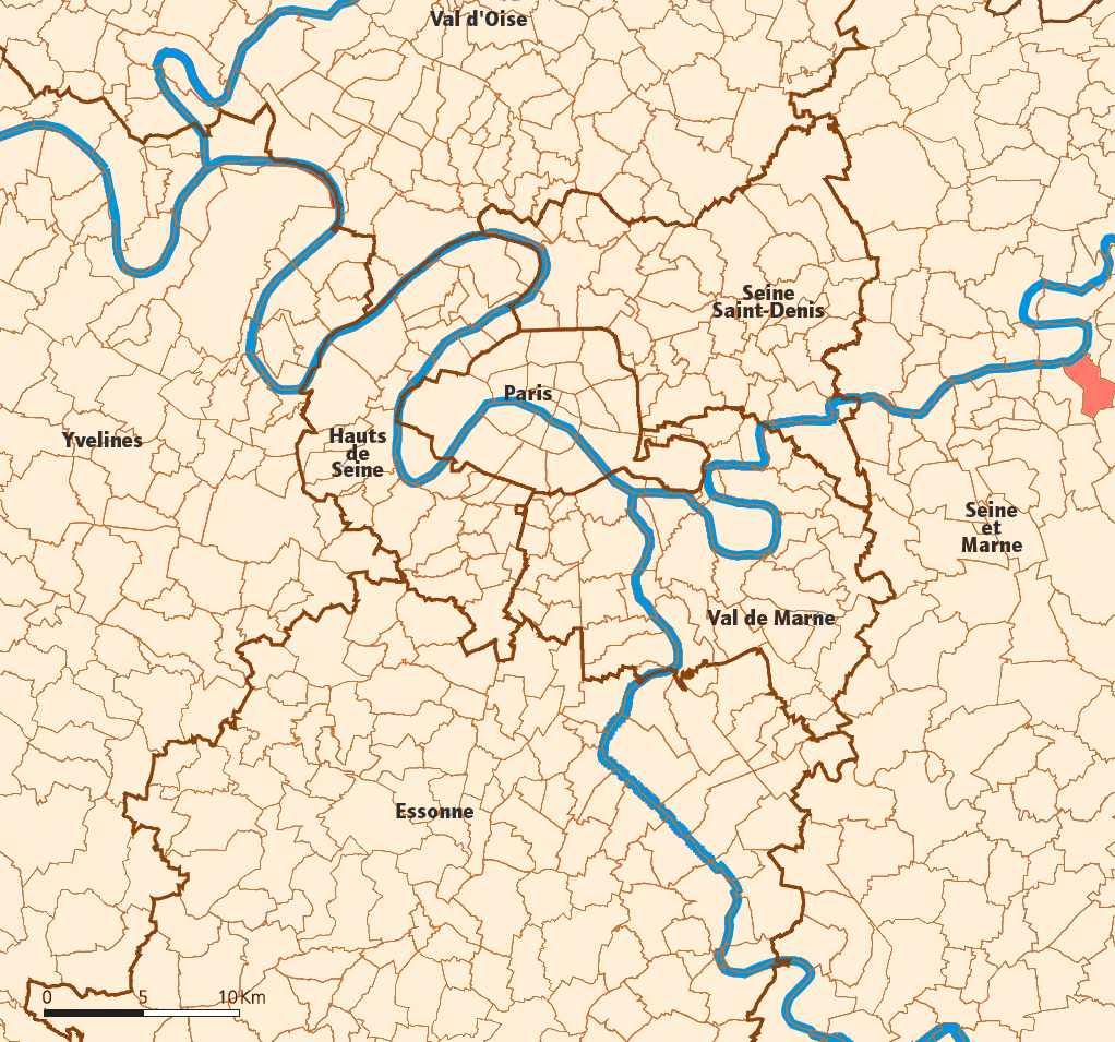 Created map myself.